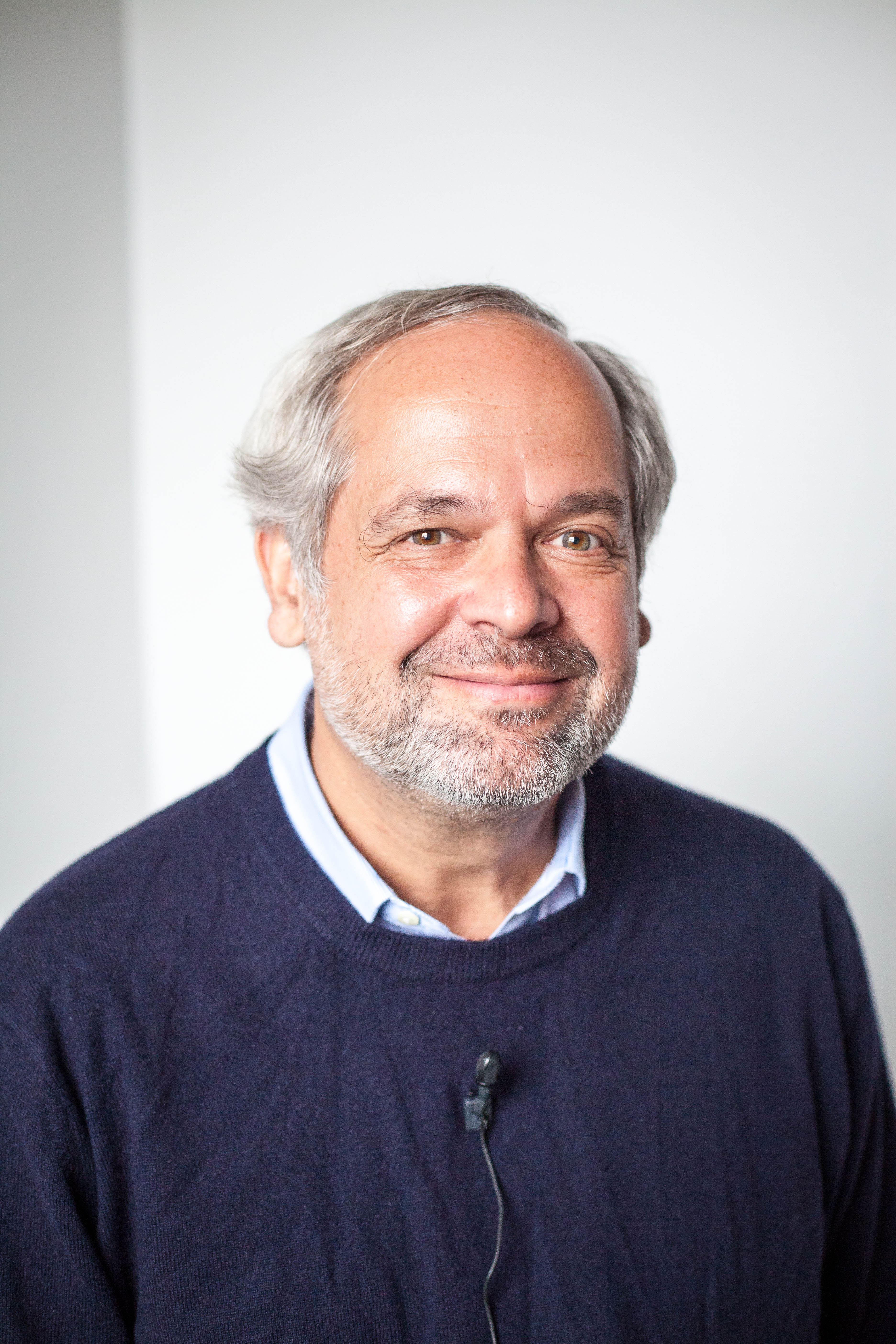 Portrait of Juan Enríquez Cabot, a Mexican politician, academic, and businessman, at PopTech 2012